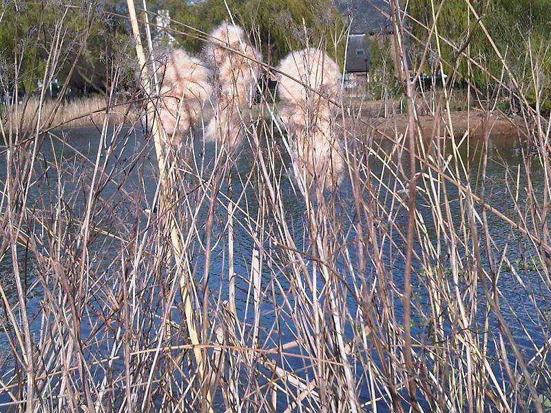 Typha latifolia's (bullrush) seed heads in a park in London, England.